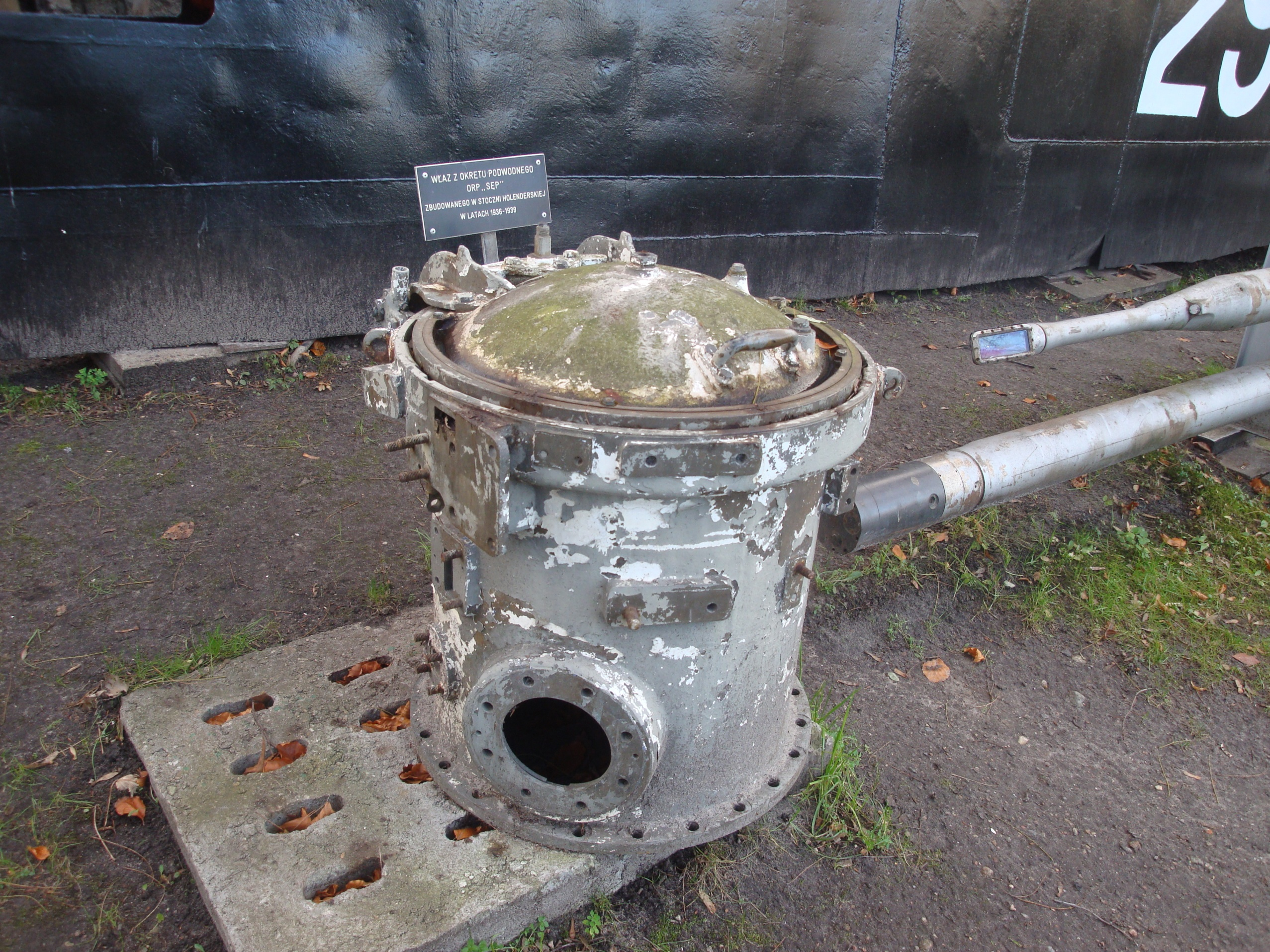 Entance hatch of polish submarine Sęp (built in 1939, scrapped in 1971). presently exhibit in Polish Navy Museum in Gdynia.